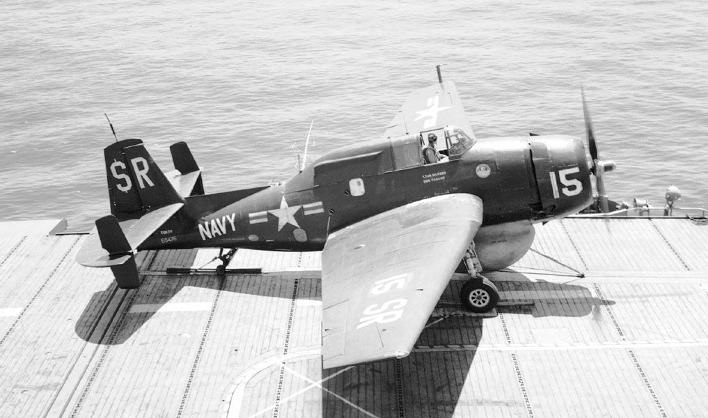 A U.S. Navy Grumman TBM-3W Avenger (BuNo 69476) from Anti-Submarine Squadron 32 (VS-32) "Norsemen" aboard the escort carrier USS Palau (CVE-122) in June 1951.